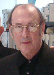 Cropped version of the file Pinterfoto.jpg on Commons. Harold Pinter around 2007(?).